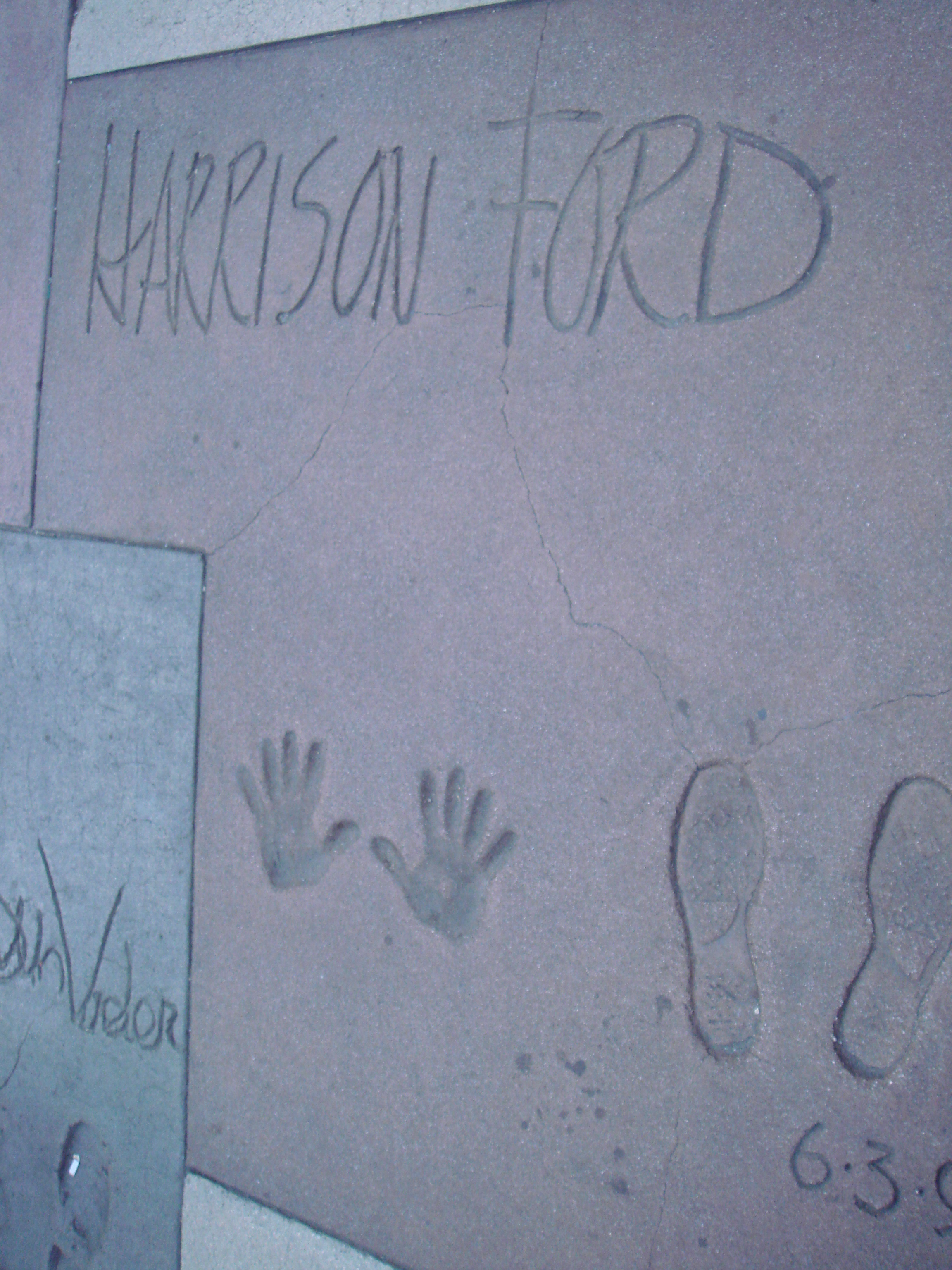 Harrison Ford signature